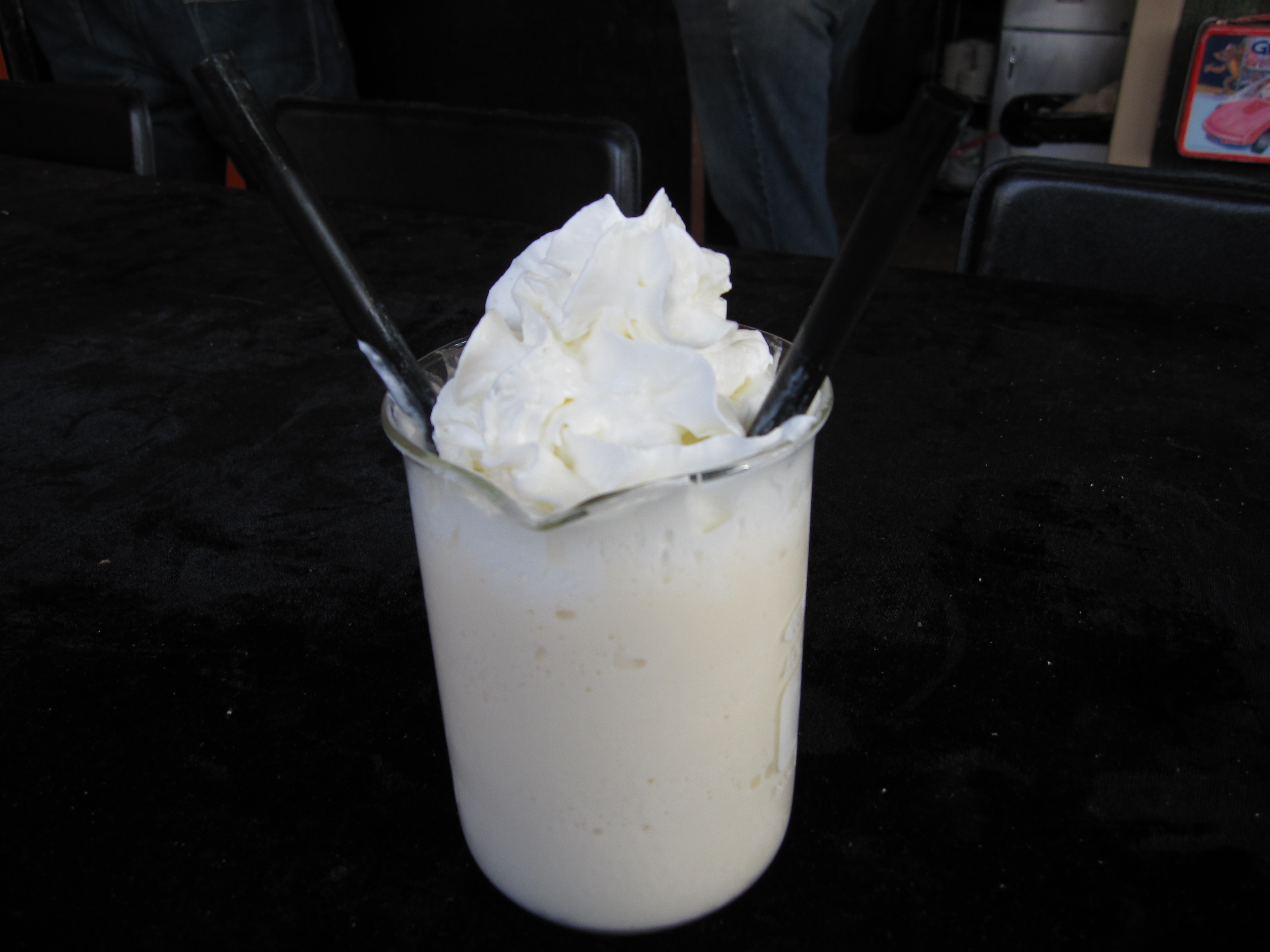 @ lunchbox laboratories. SO good.